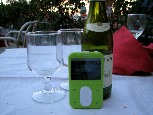 A Zen device